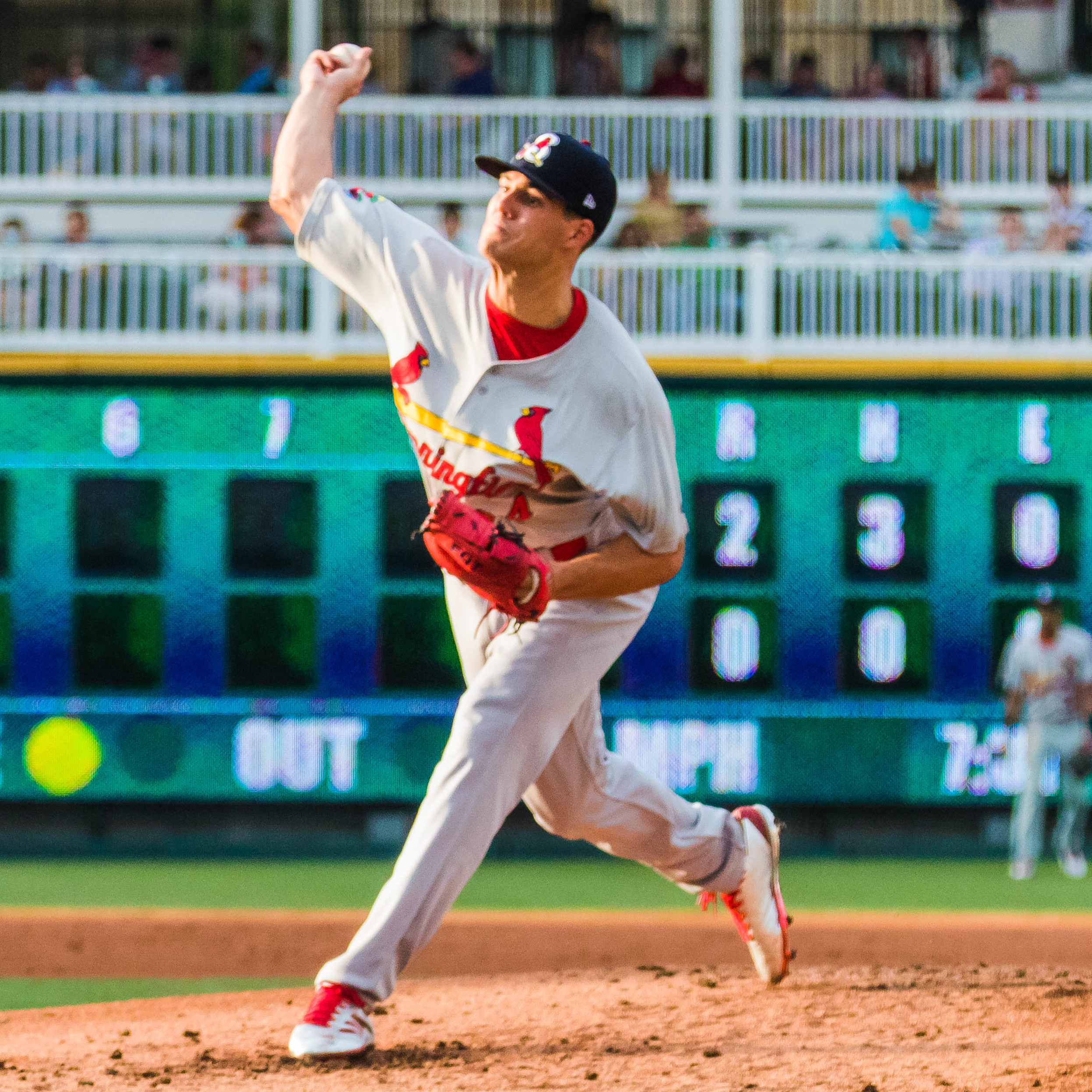 Dakota Hudson pitching in the 2017 Texas League All-Star Game